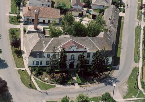 Földes, Hungary, aerialphotography